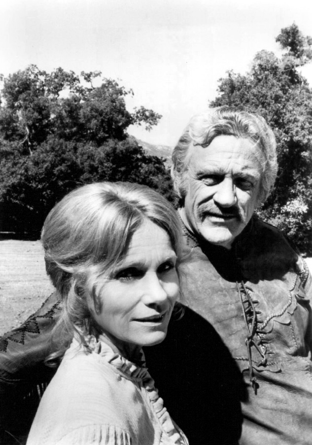 Photo of James Arness and Eva Marie Saint as Zeb and Kate Macahan from the made for television film which introduced the series The Macahans or How the West Was Won.